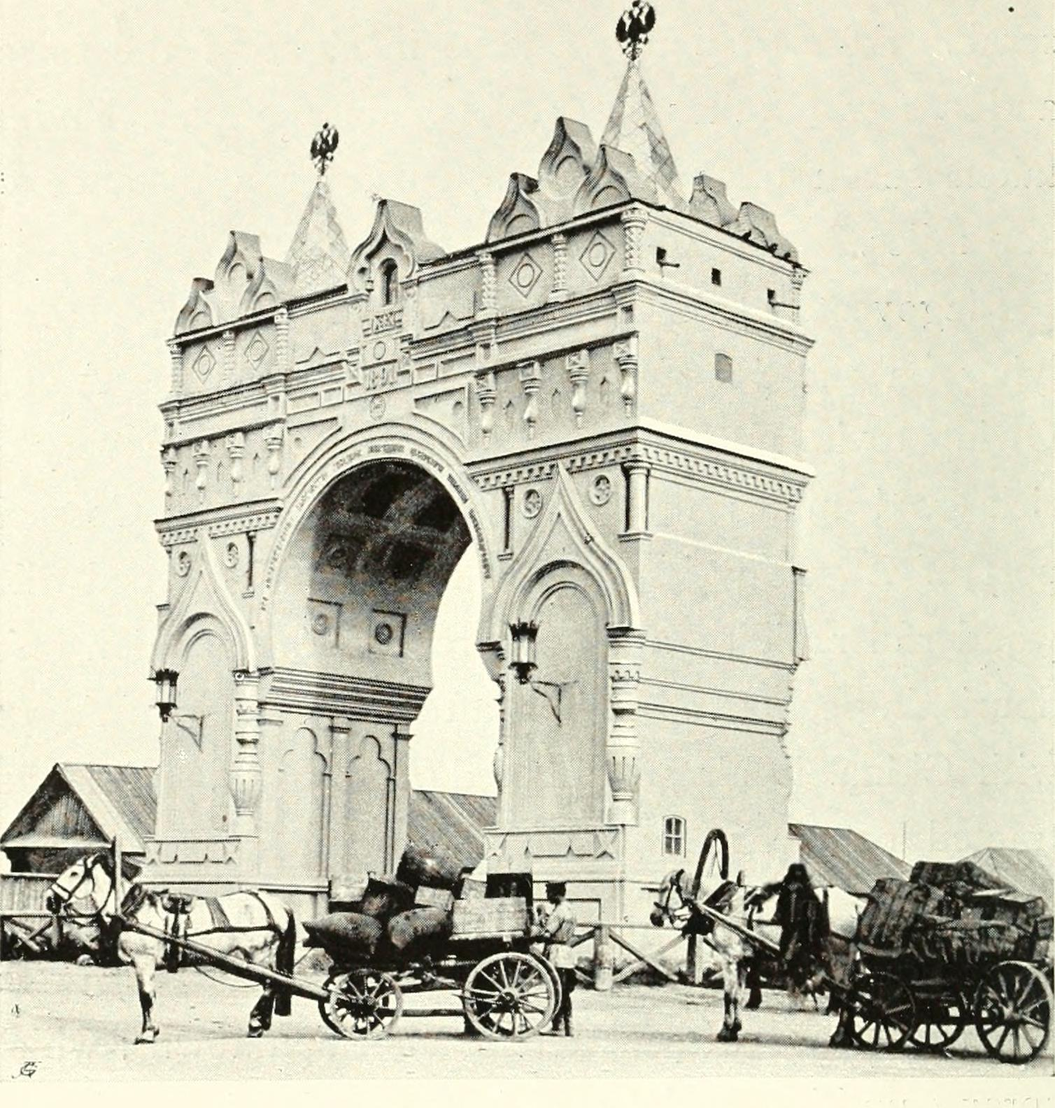 THE TRIUMPHAL ARCH AT BLAGOVESTCHENSK